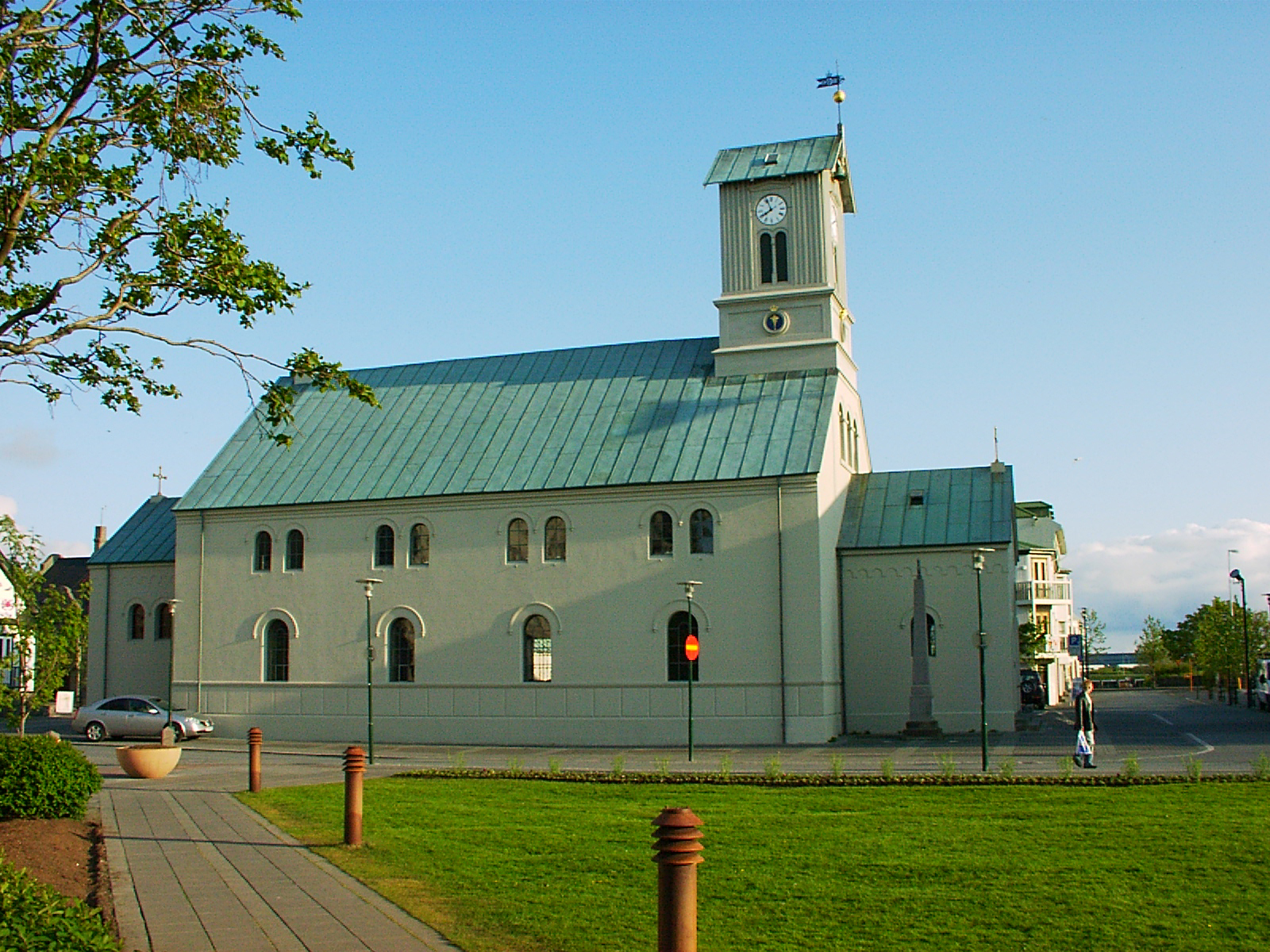 Reykjavík Cathedral in Reykjavík/ Iceland Architect: L.A. Winstrup (1815-1889)